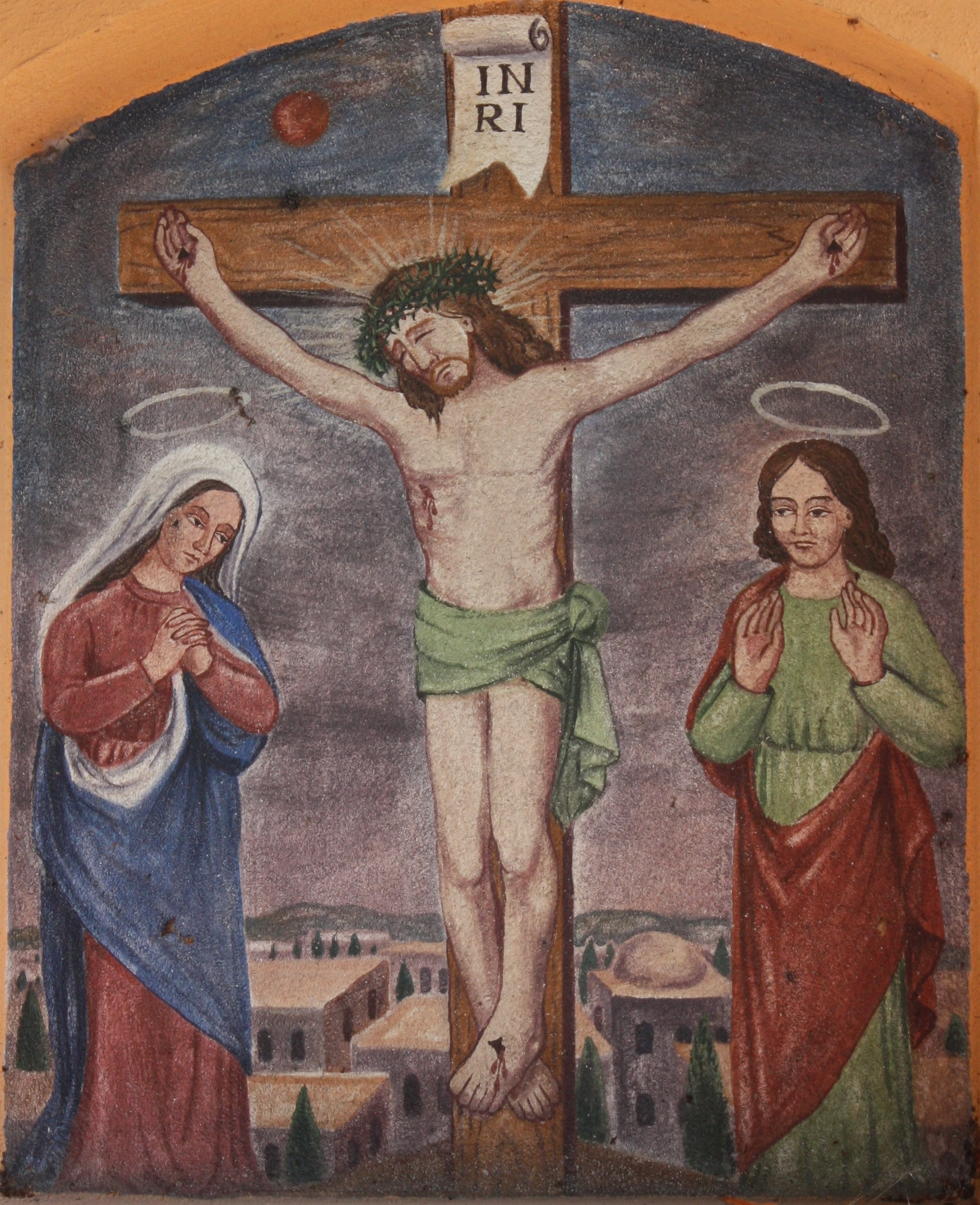 Wayside shrine - crucifixion Locality: Pribelsdorf/Priblja vas Community:Eberndorf